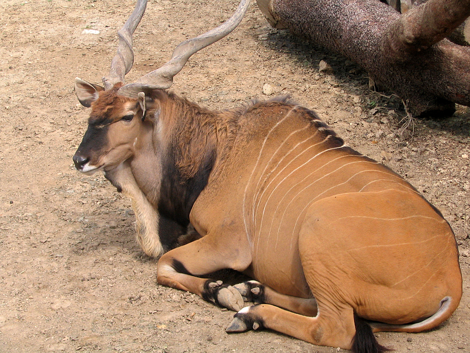 This picture is of the Giant Eland at the Houston zoo. The picture was taken with a Canon PowerShot A75. The contrast of this image was increased using Photoshop; no other edits were made.